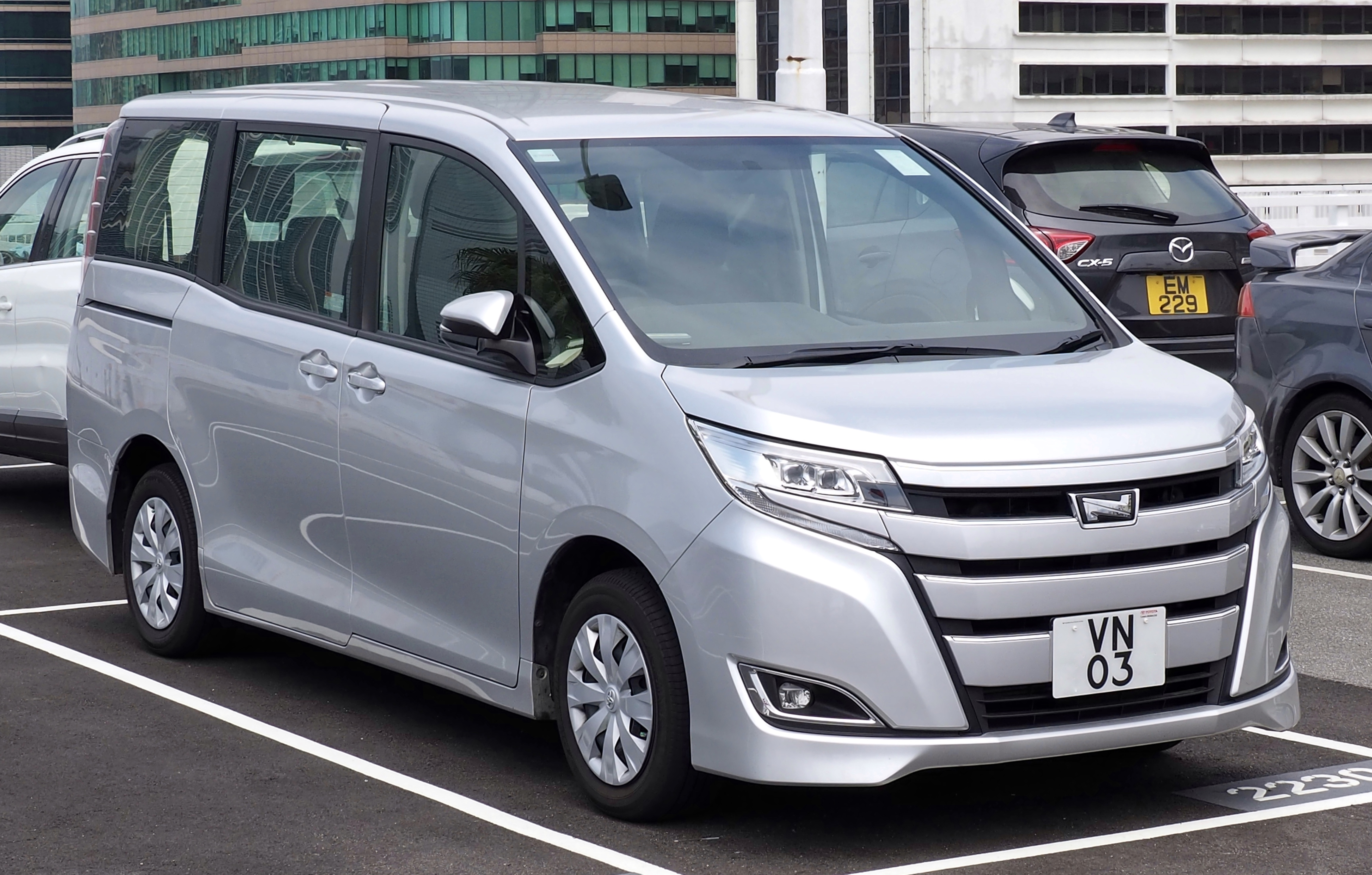 A 2018 Toyota Noah taken in Kowloon, Hong Kong